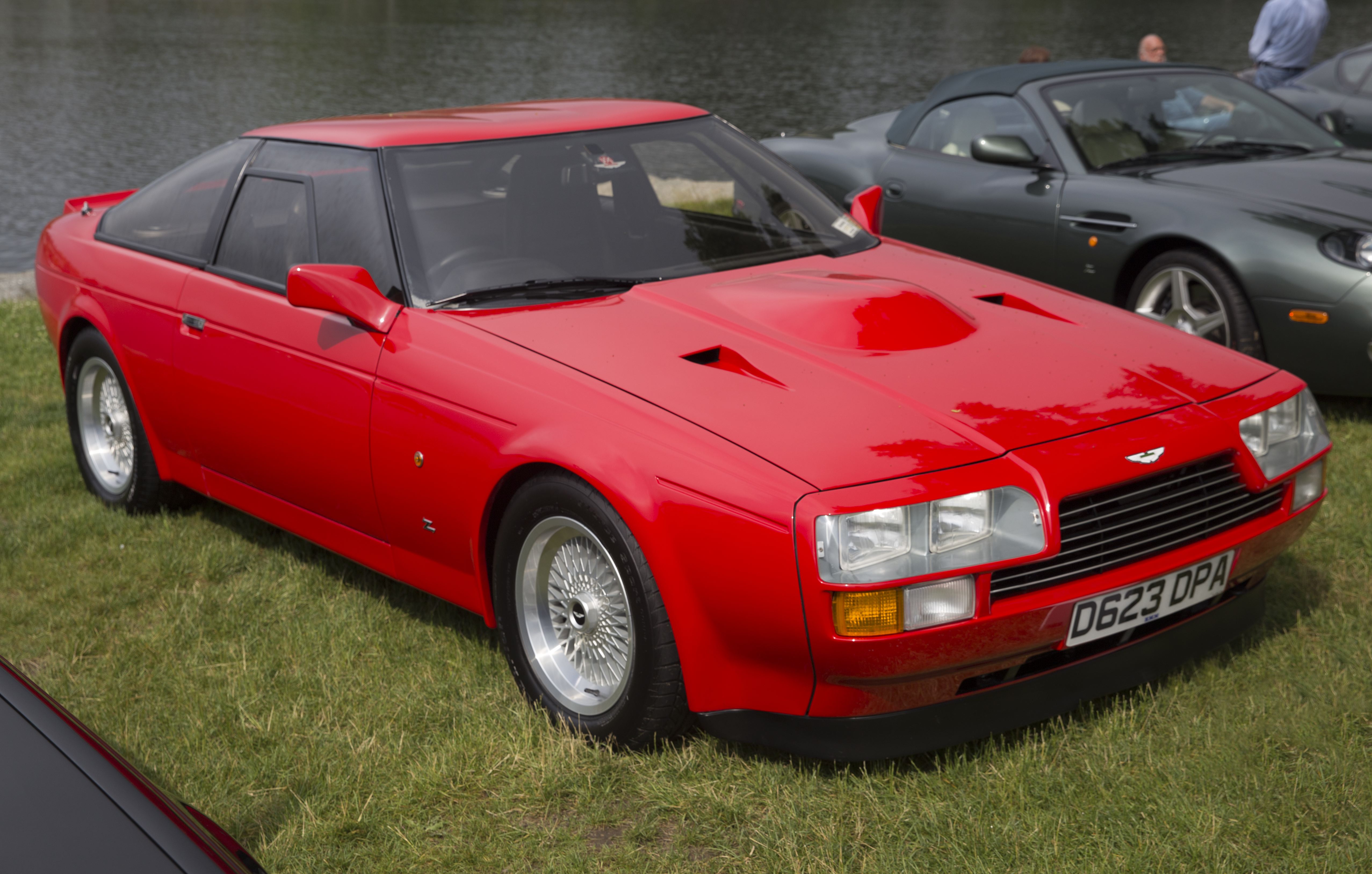 1987 Aston Martin V8 Vantage Zagato at the 2019 Greenwich Concours d'Elegance. Manual transmission, RHD, original Gladiator Red with Black interior. Build date is 1986 (the tenth car produced), originally delivered to England.